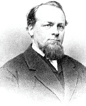 Old lithograph sketch of Cornelius H. DeLamater (born 1821, died 1889) who owned a large estate in the Town of Huntington, New York.